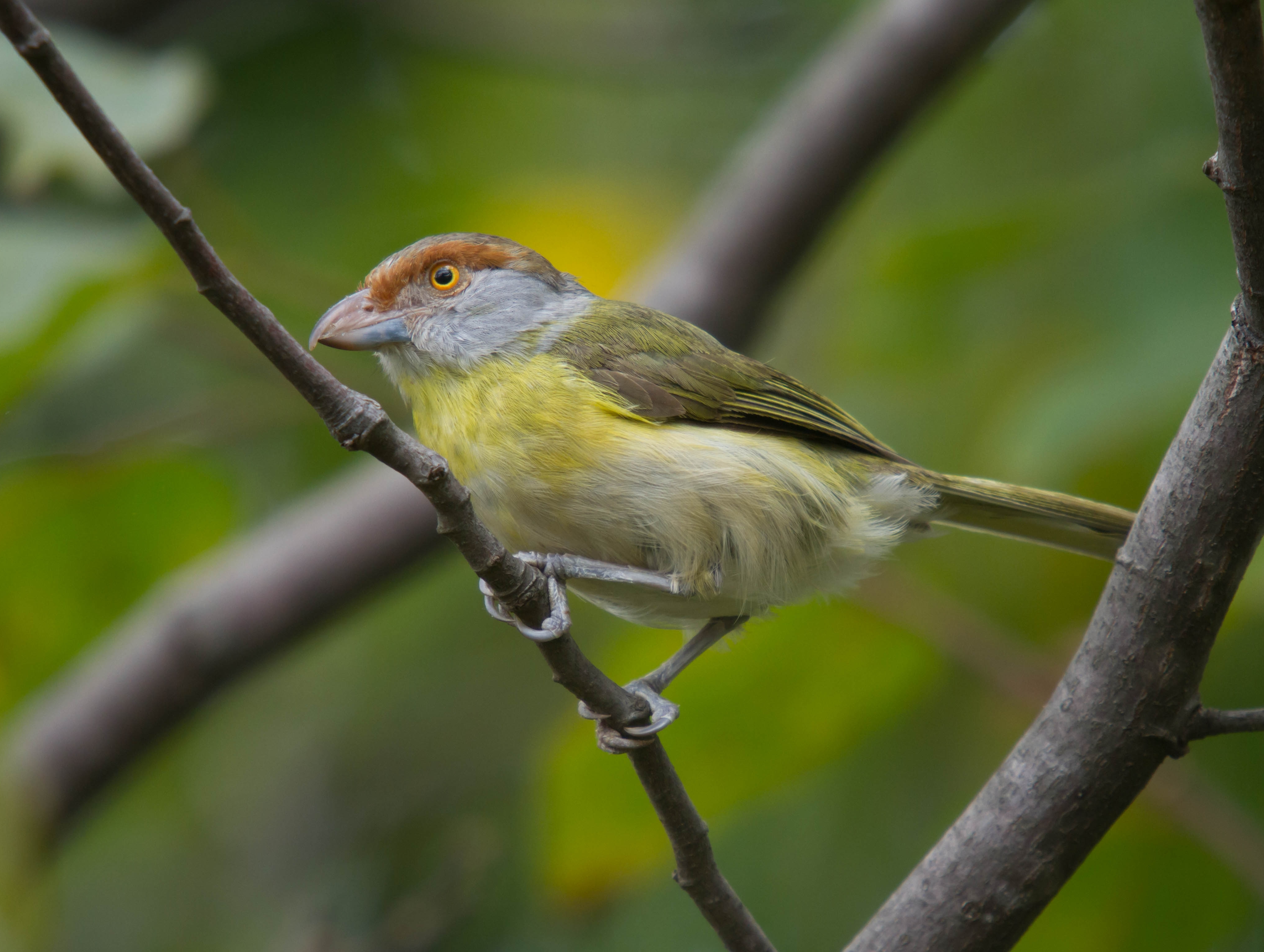 A rufous-browed Peppershrike (Cyclarhis gujanensis)